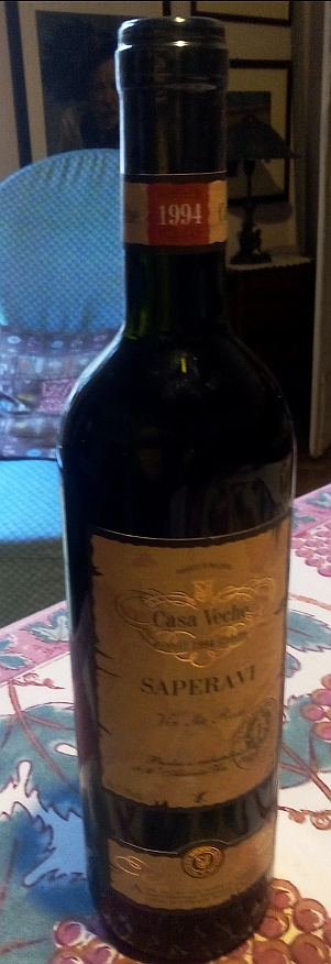 Saperavi wine from Moldova, year 1994